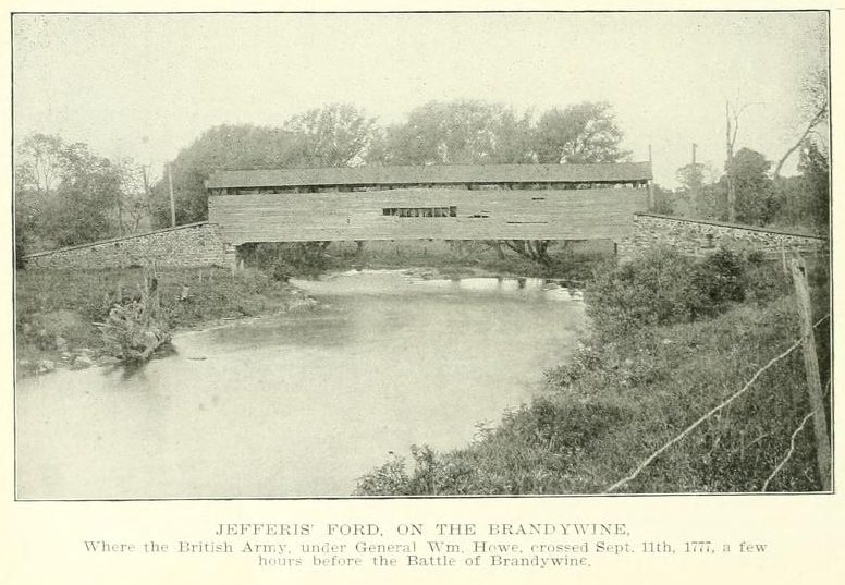 Jefferis Ford Covered Bridge. Image from public domain book (1899): West Chester, past and present: centennial souvenir with celebration proceedings